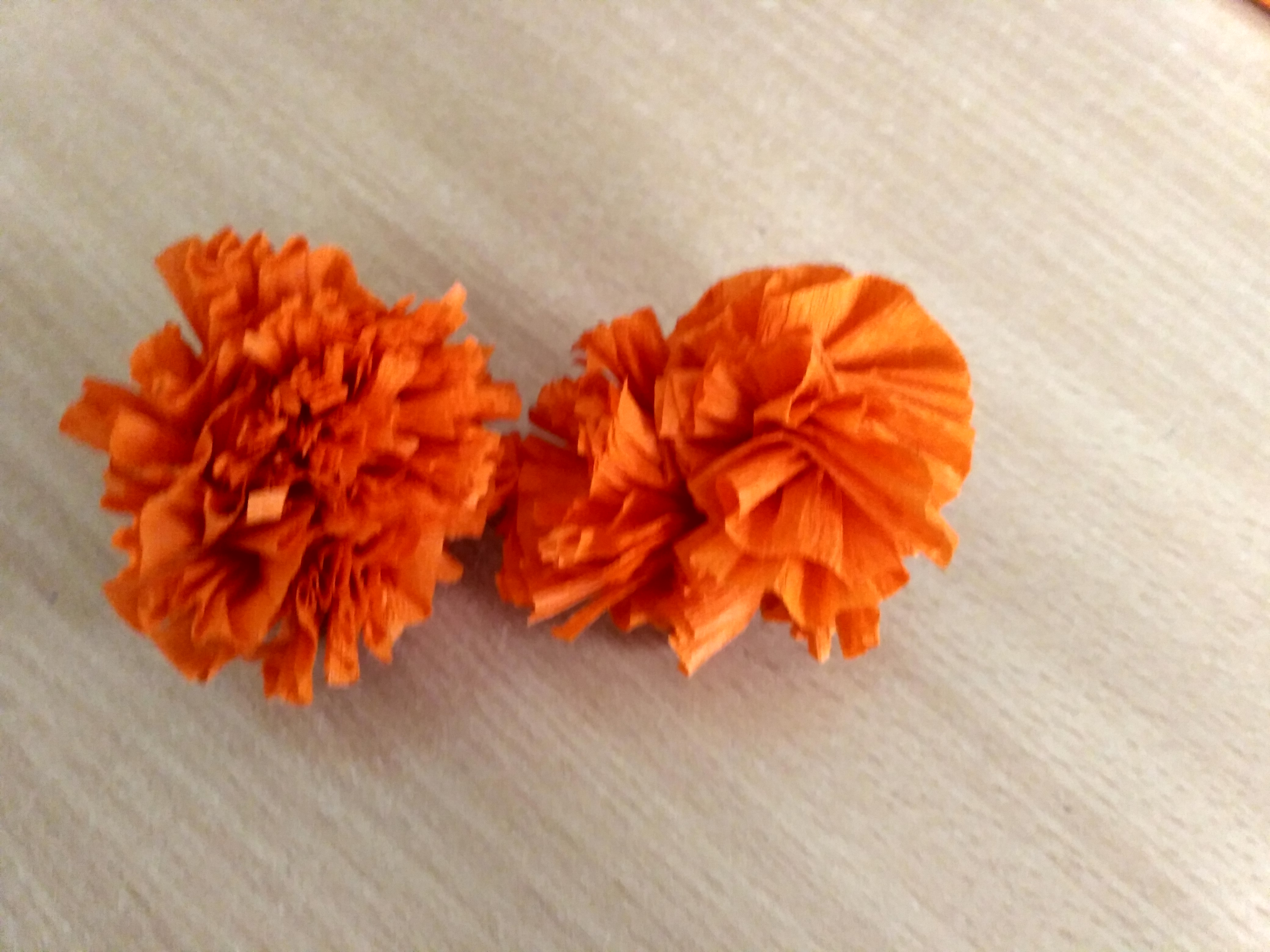 जिलेटीन पेपराचे झेंडूची फुले